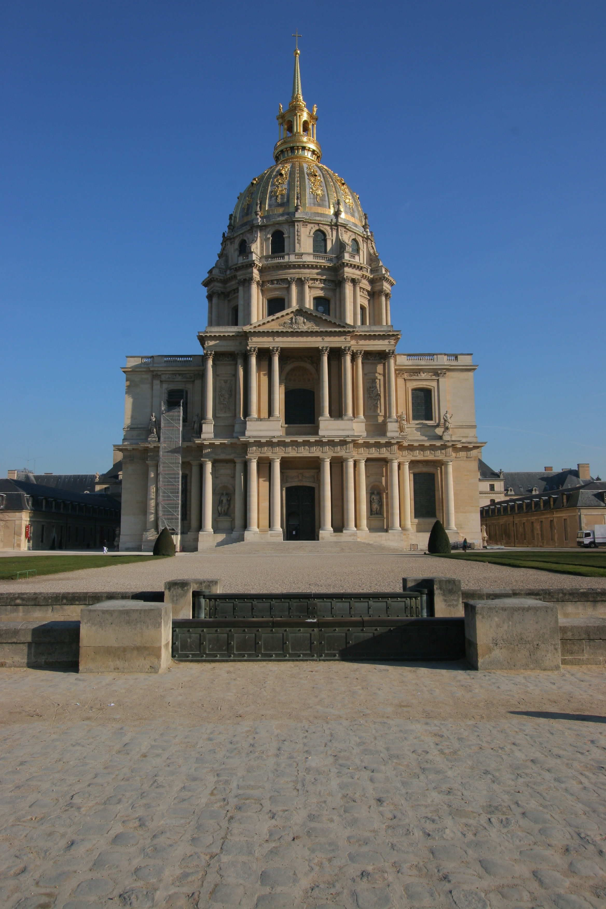 Hotel National des Invalides, Paris, France. Seen from the South. This is the place where Napoleon's body is.